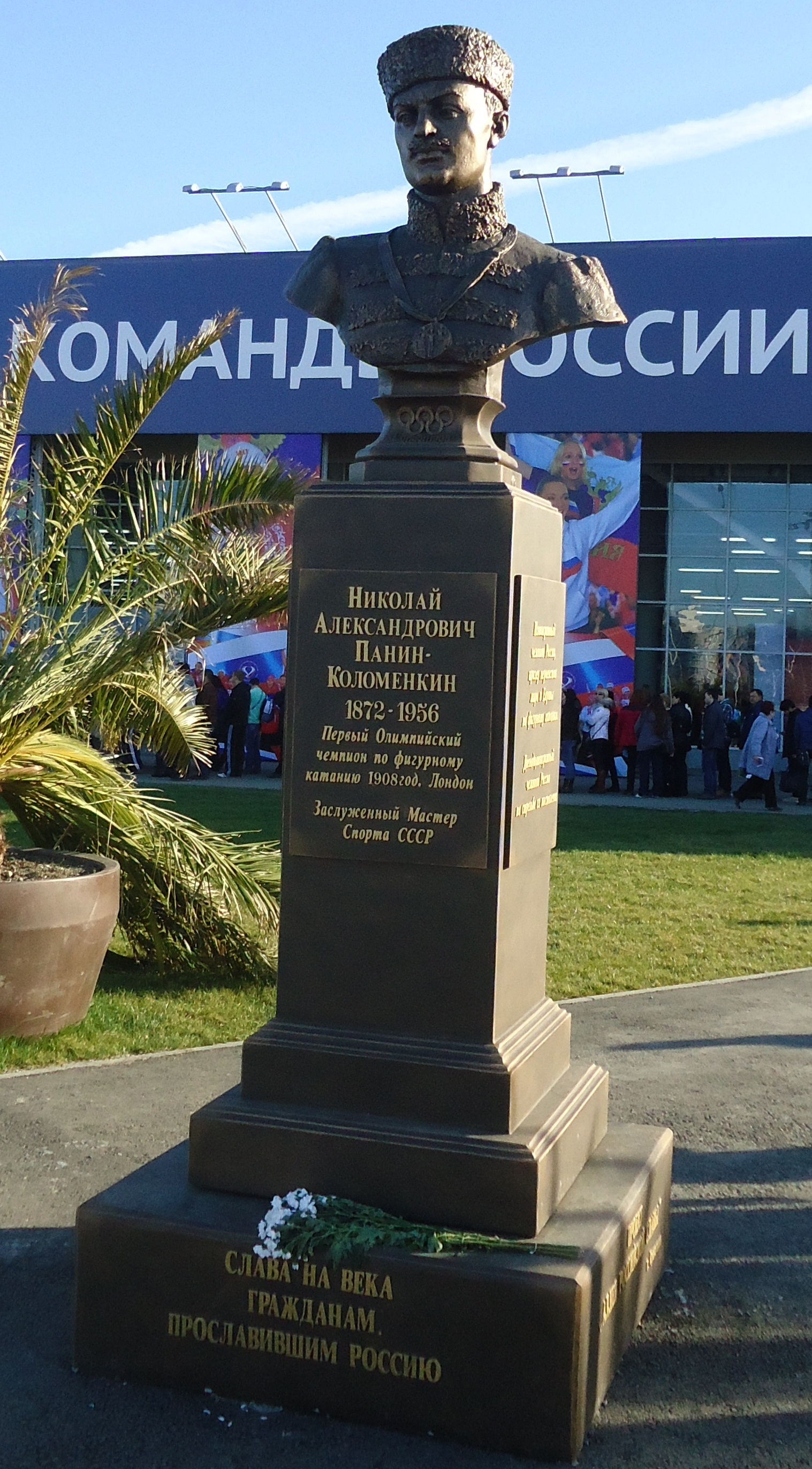 Monument to the first Olympic champion in figure skating (London, 1908), Honored Master of Sports of the USSR, Nikolai Aleksandrovich Panin-Kolomenkin. Picture taken during the 2014 Winter Olympics in Sochi